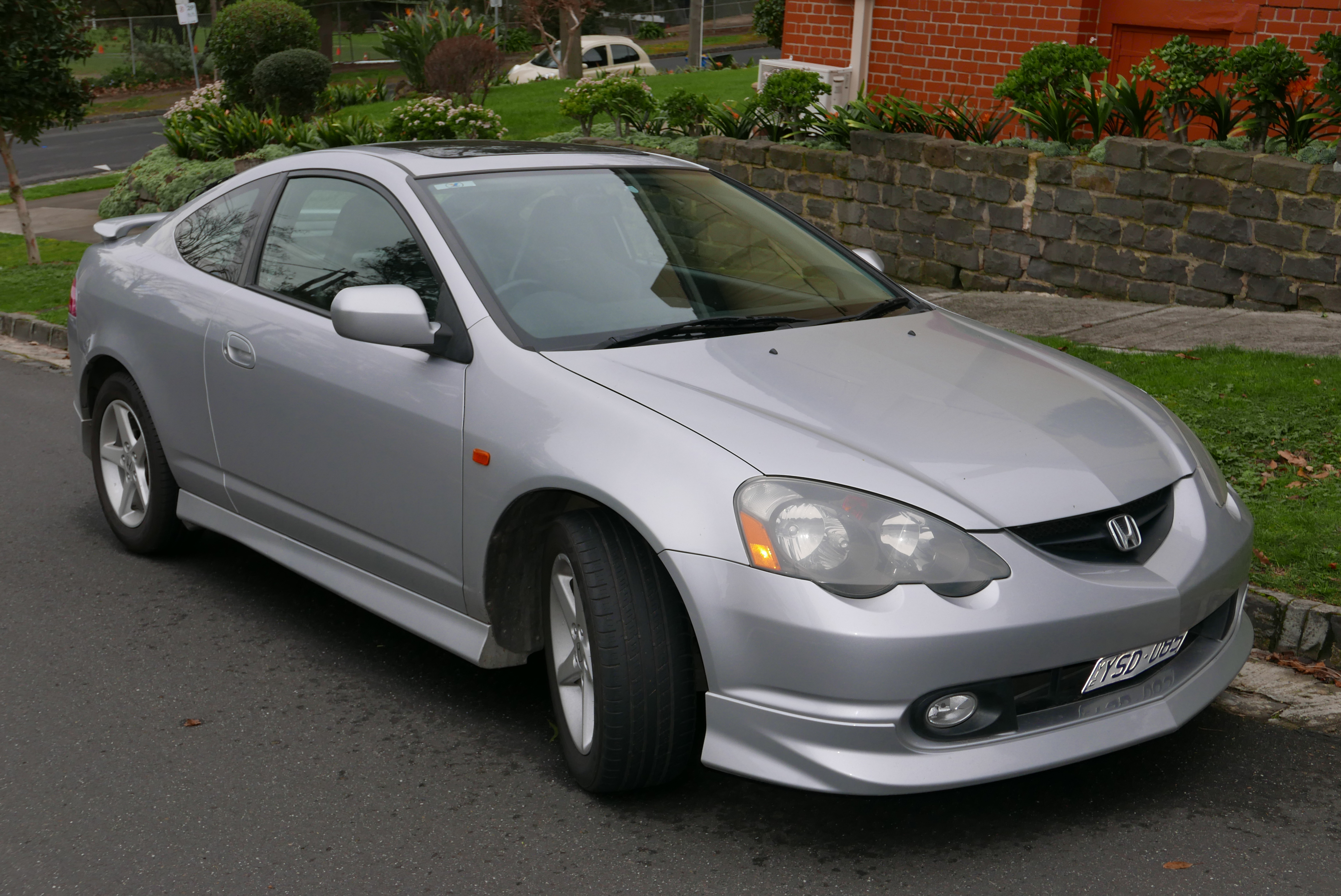 2002 Honda Integra (DC5) Special Edition coupe. Photographed in Kew, Victoria, Australia. Vehicle registration enquiry resultsJurisdictionVictoriaRegistrationYSD085Chassis codeJHMDC54302C201625Engine code18011324017692Compliance date2002-06Year of manufacture2002